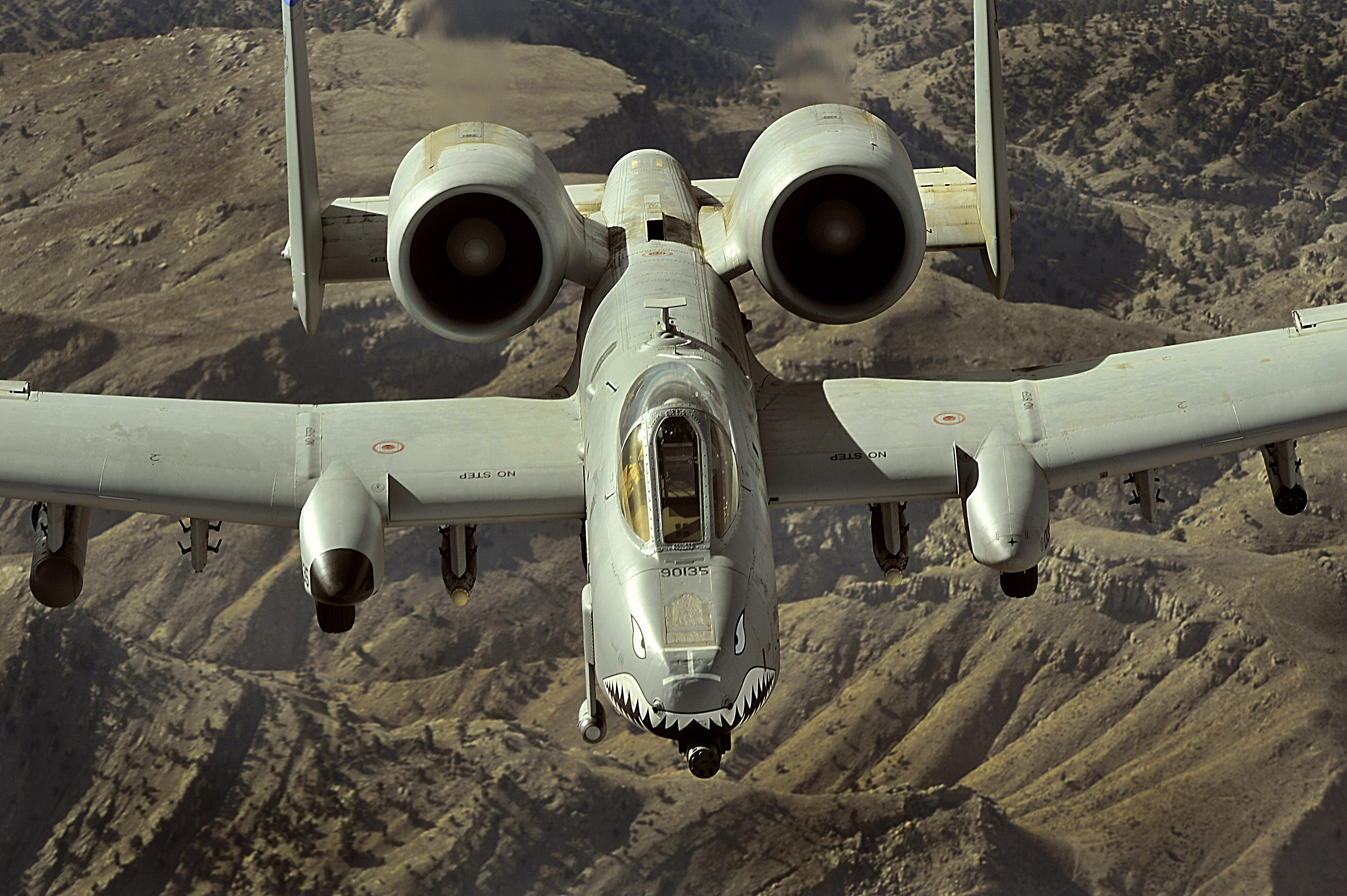 An A-10 Thunderbolt II flies a close-air-support mission over Afghanistan on Oct. 7. The Thunderbolt II can employ a wide variety of conventional munitions, including general purpose bombs, cluster bomb units, laser guided bombs, joint direct attack munitions, wind corrected munitions dispenser or WCMD, AGM-65 Maverick and AIM-9 Sidewinder missiles, rockets, illumination flares, and the GAU-8/A 30mm cannon, capable of firing 3,900 rounds per minute to defeat a wide variety of targets including tanks. (U.S. Air Force photo/Staff Sgt. Aaron Allmon)